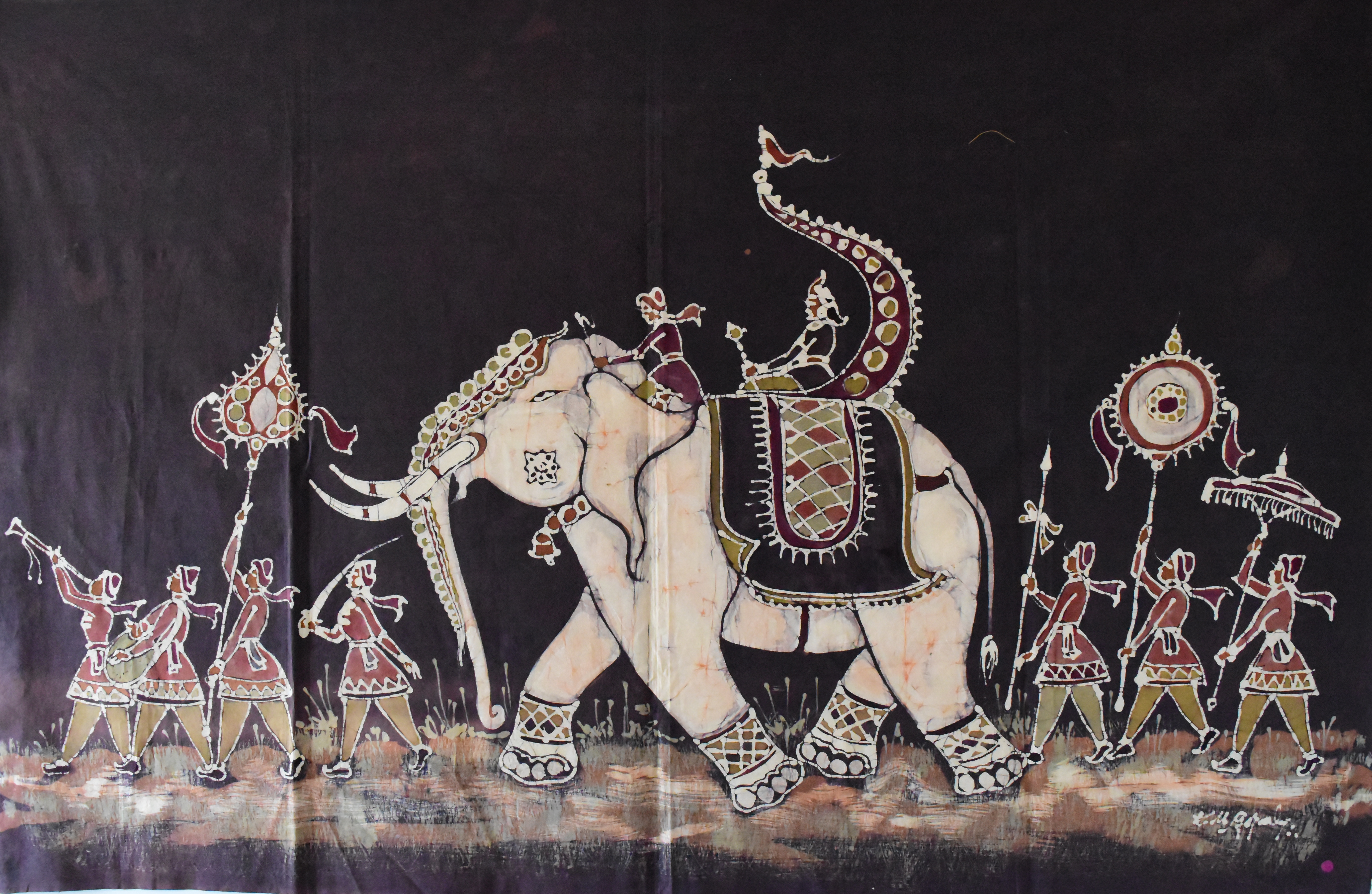 Madras School of Arts and Crafts was transitioning to modernity in 1960s-1970s. During this time, artists have explored various methods to express their arts and culture. This Batik was done by artist K.M.Gopal during 1970s. This is now held in the collecion of Kalaimaiyam (UK).